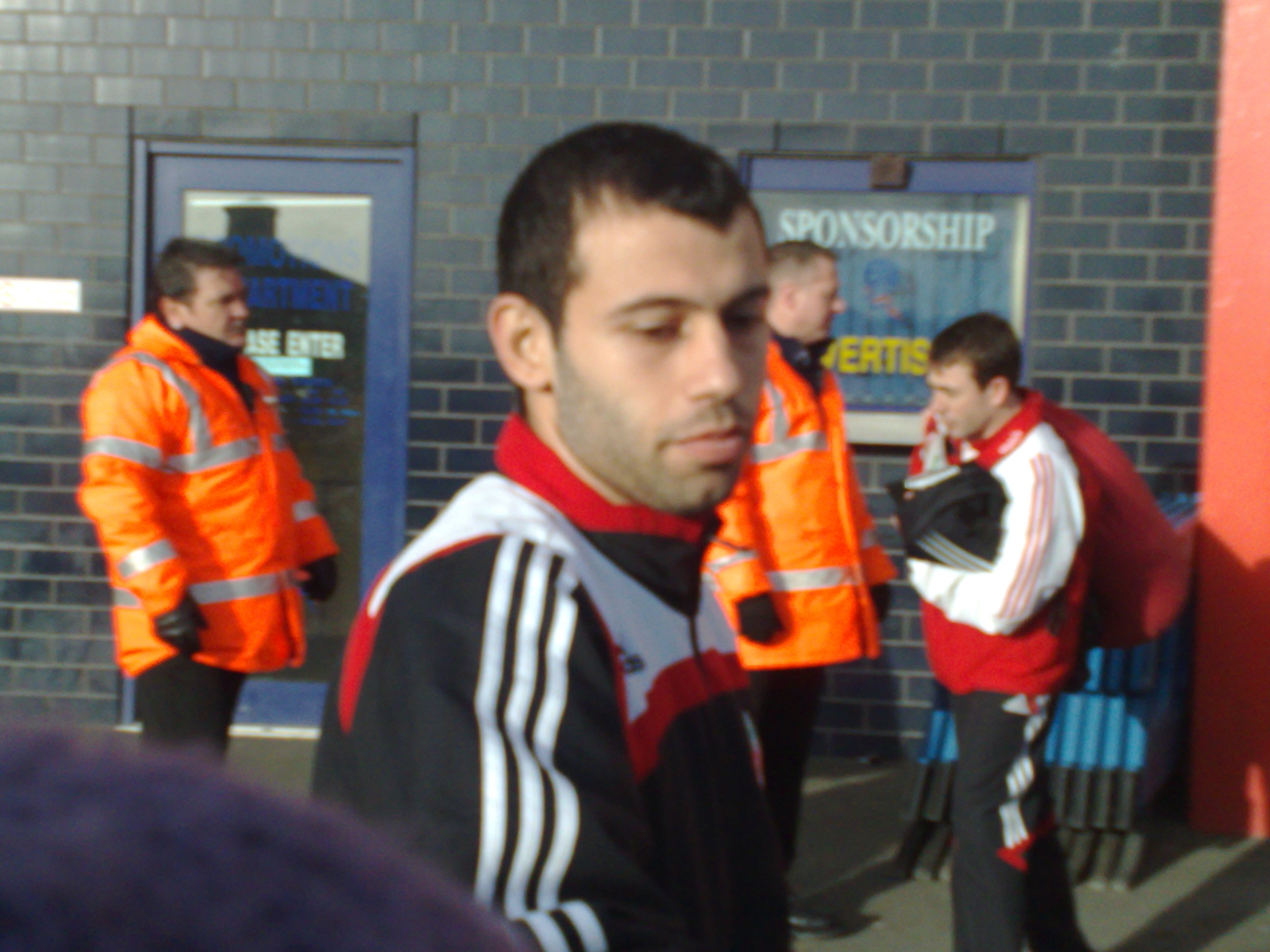 Javier Mascherano as a Liverpool player outside Reebok Stadium in Bolton.